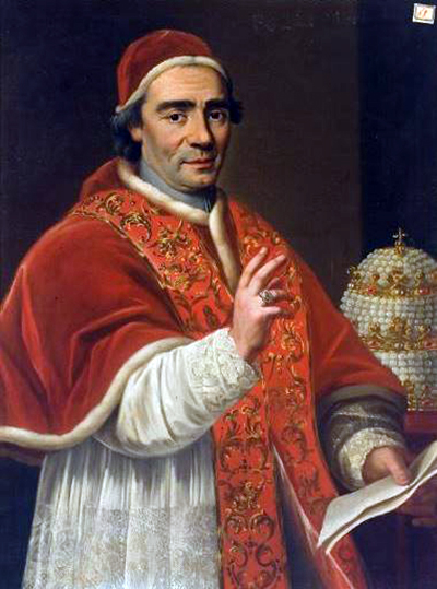 A portrait of Pope Clement XIV held in the Pinacoteca Comunale of Faenza